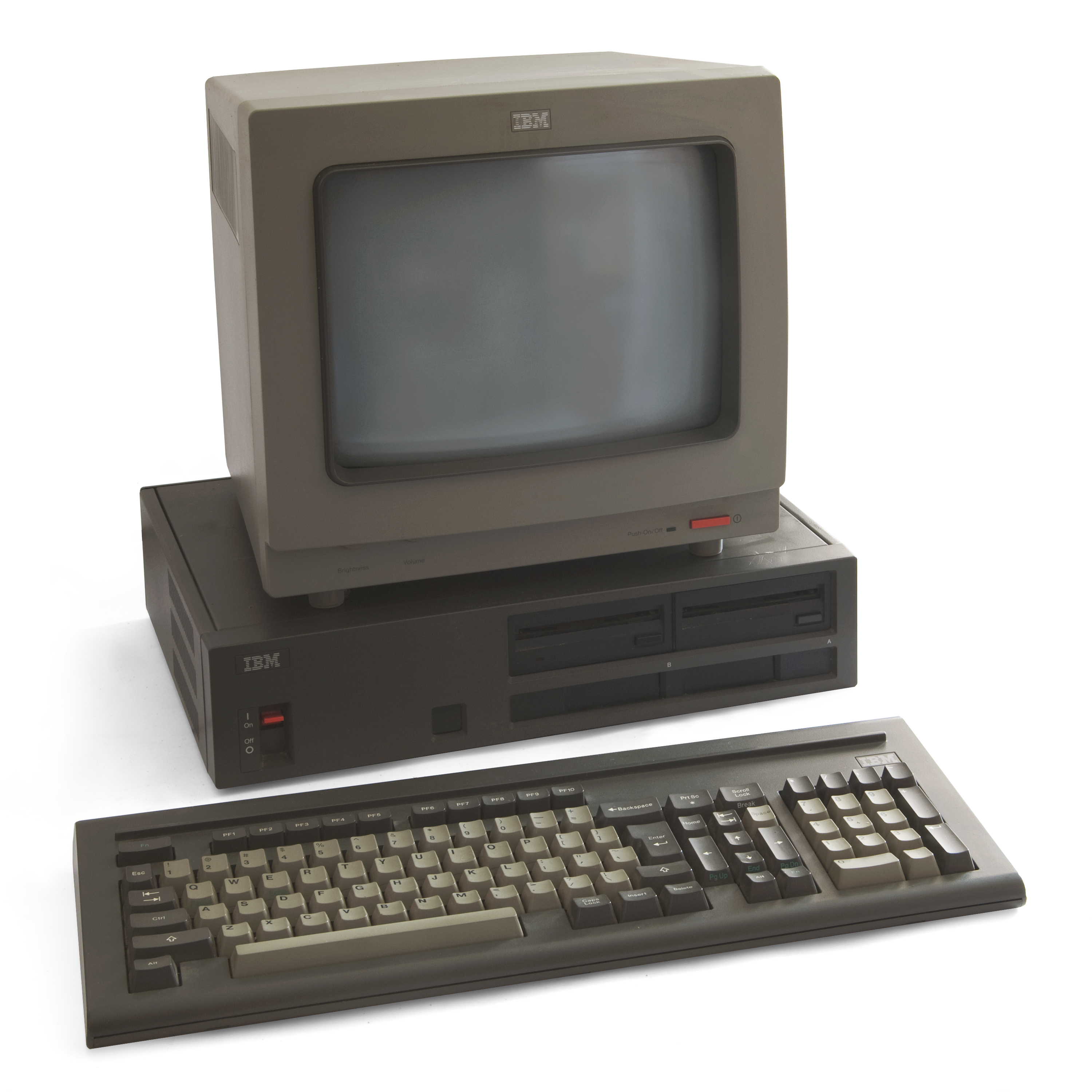 IBM JX computer